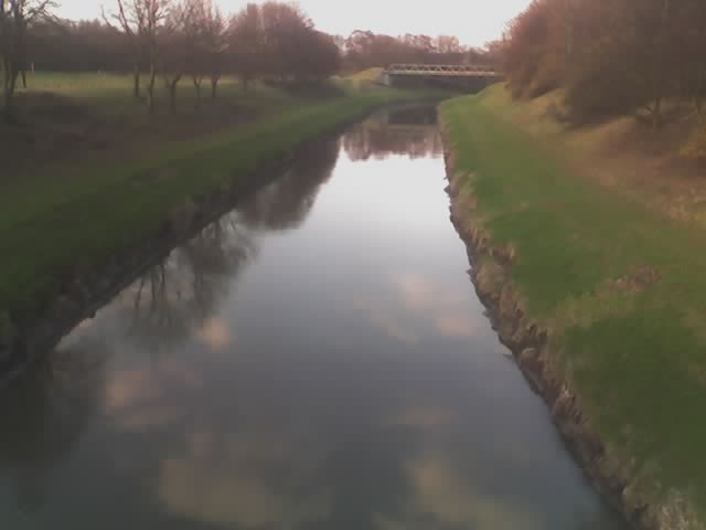 The Emscher river in northern Essen, Germany